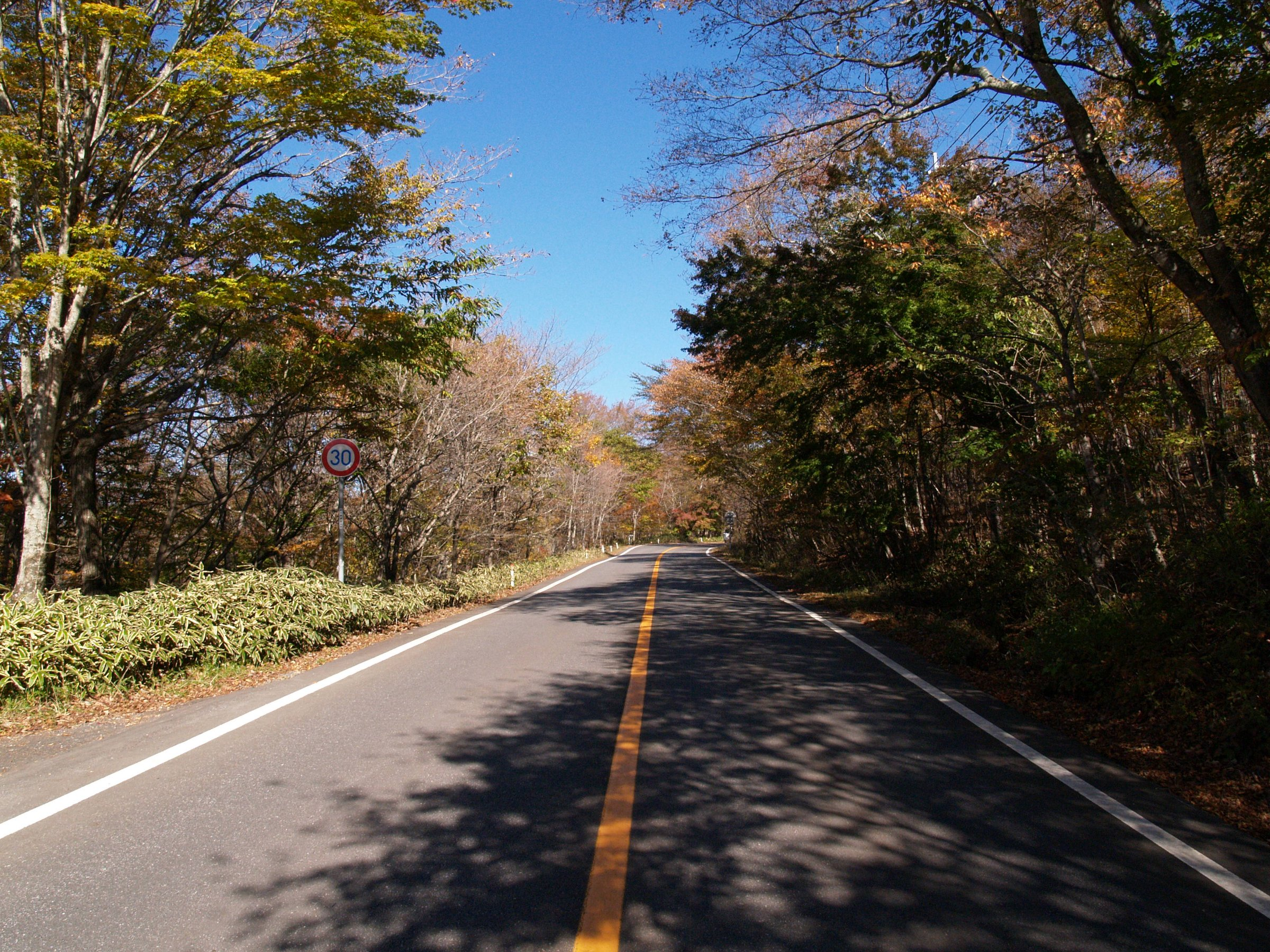 The Nichien Toll Road Momiji Line (part of the Tochigi Prefectural Road Route 19)